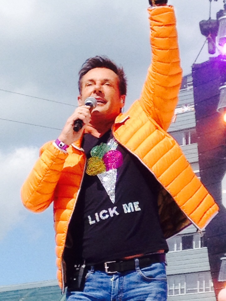 Gerard Joling during King's Day 2015